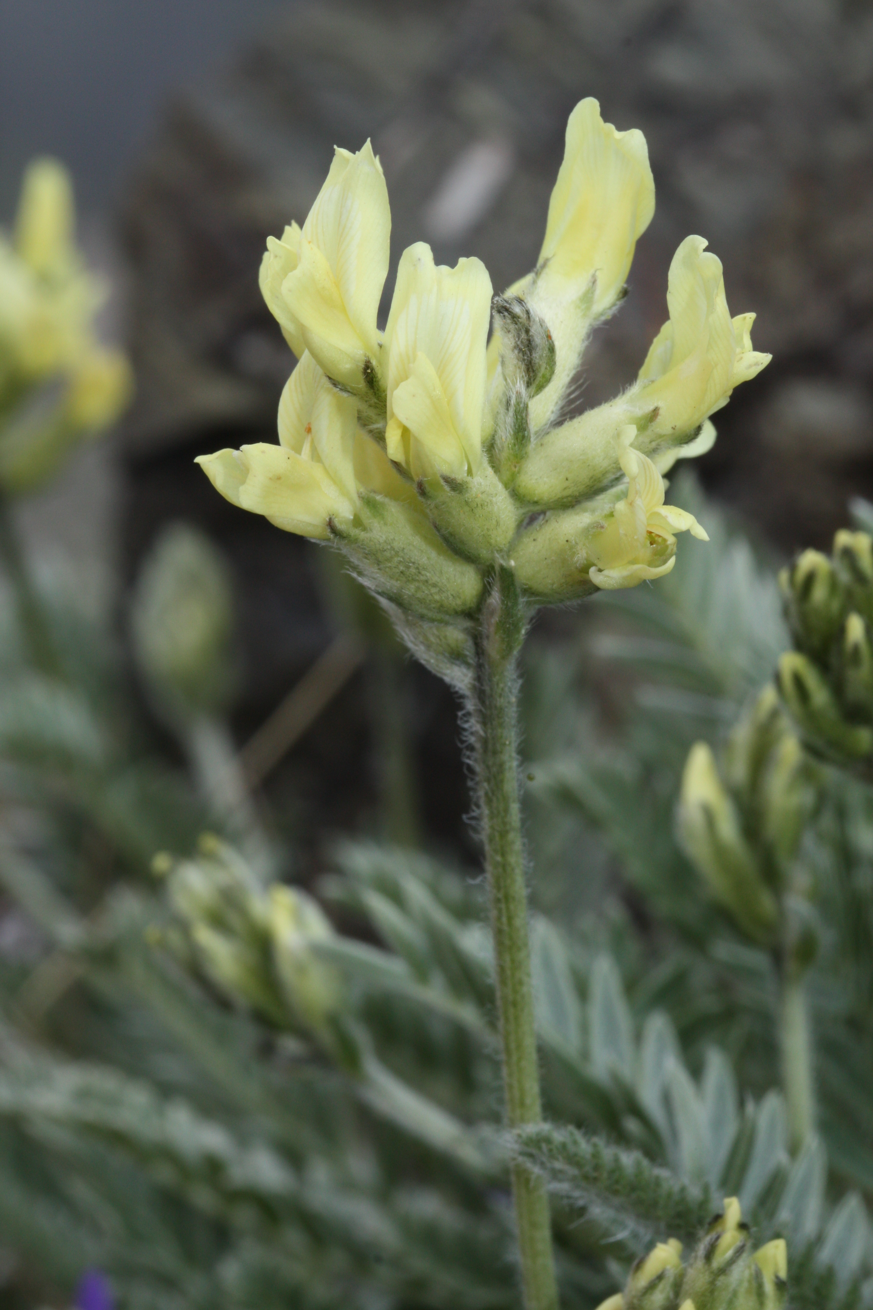 Yellow-flower Locoweed